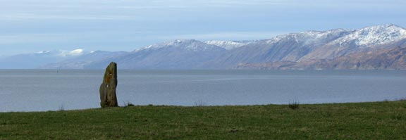 Clach-a-Charra - Onich. This is on farm land at the edge of Onich and the mouth of Loch Levan